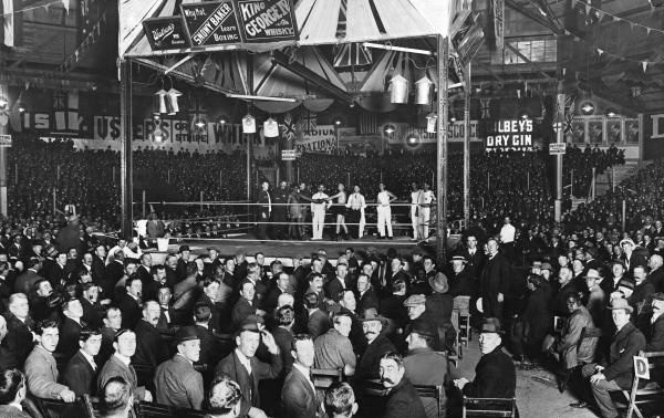 Dave Smith versus Jerry Jerome, Sydney Stadium, 19 April 1913. Jerry Jerome is on left. Sitting in the audience behind row 'B' is boxer Black Paddy.